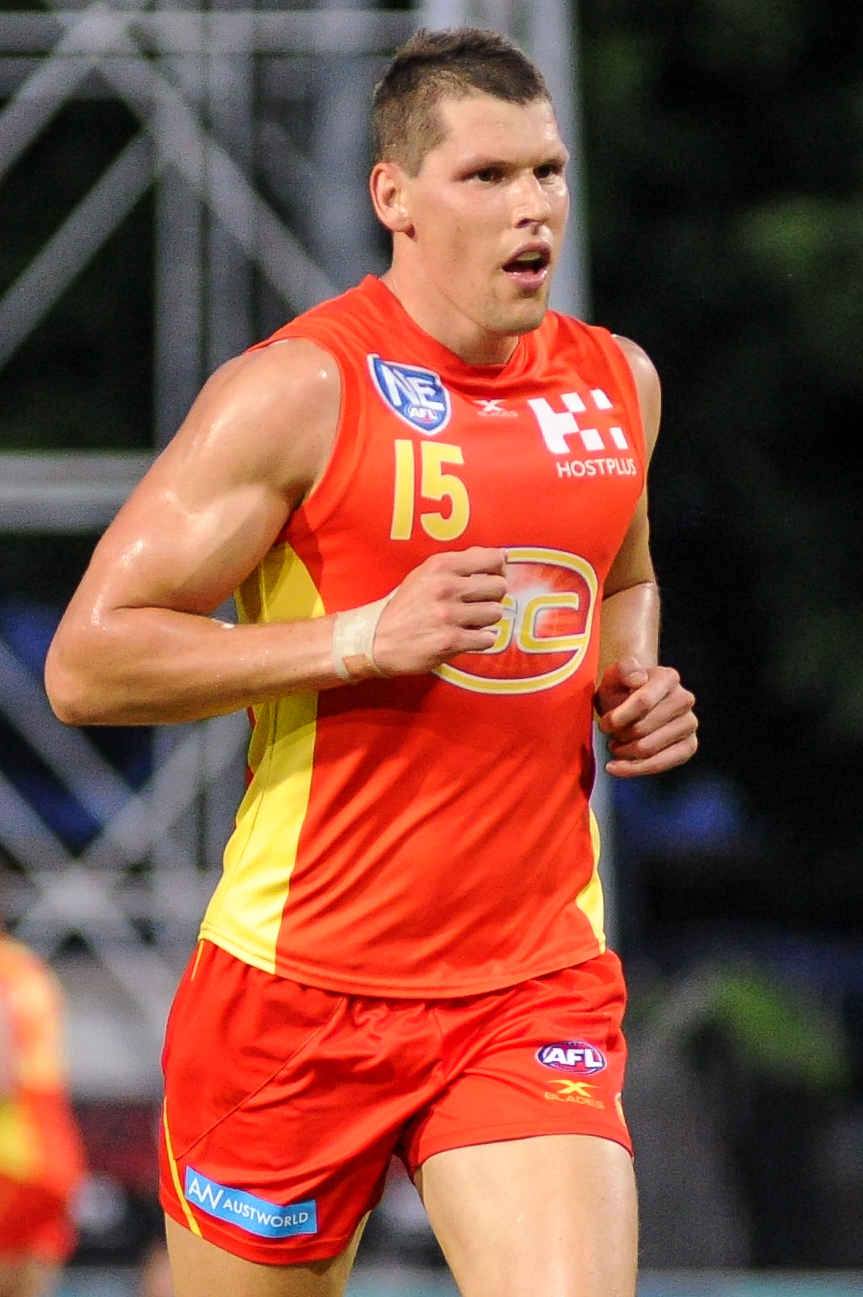 Daniel Currie playing for the Gold Coast Suns' reserves in May 2017.